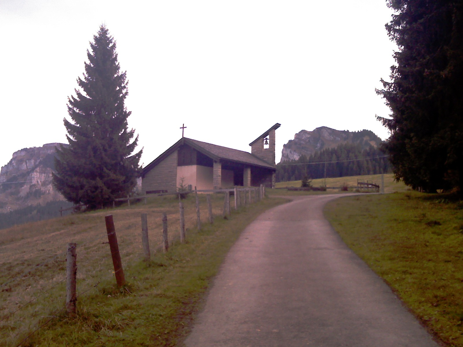 Sattelegg, chapel at the pass heigt